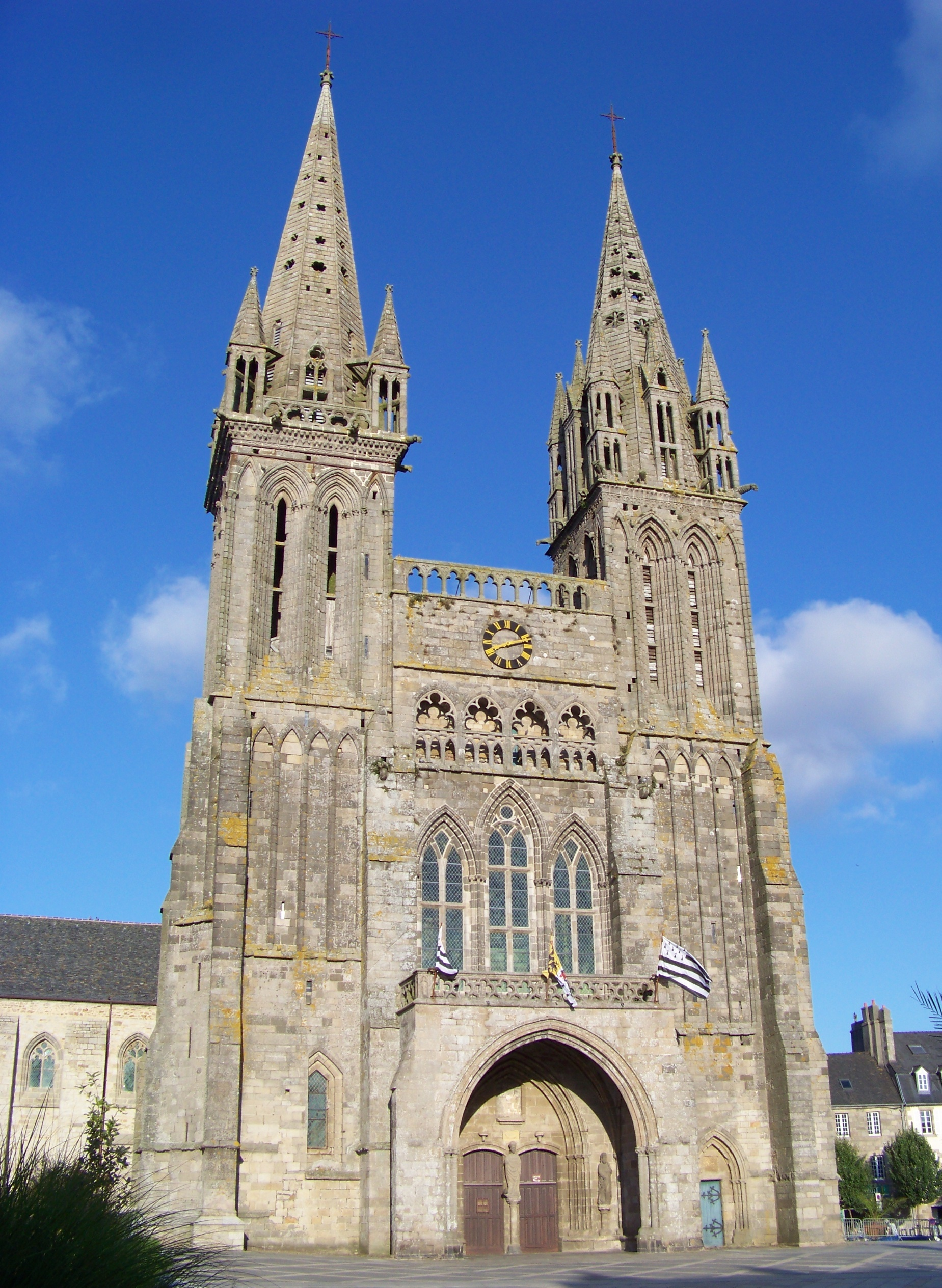 Saint Pol Aurelian cathedral, Kastell Paol, Finistere, Brittany .